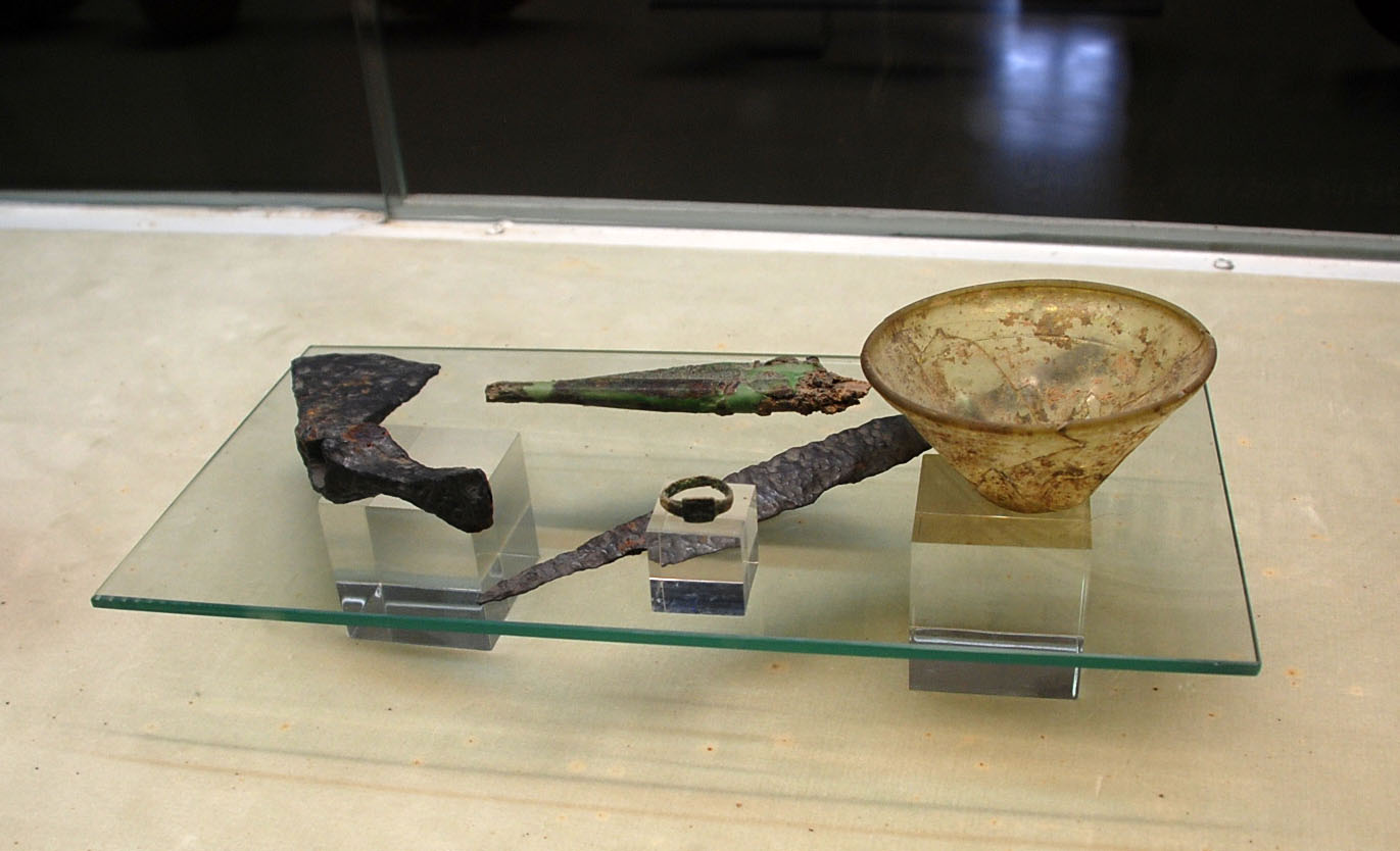 Archaeological museum of San Pedro in Saldaña (Palencia, Castile and León).